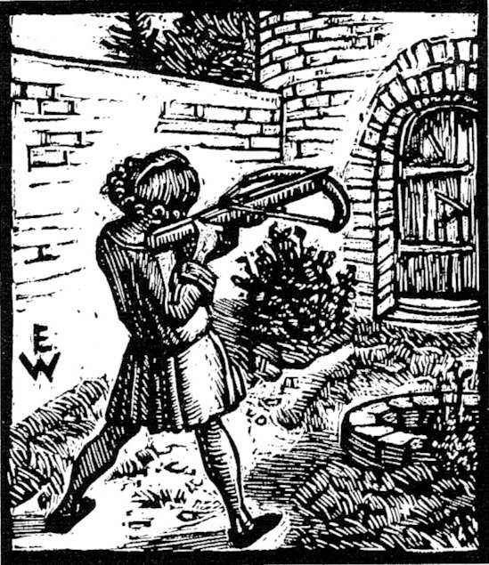 Dietegen and his crossbow.